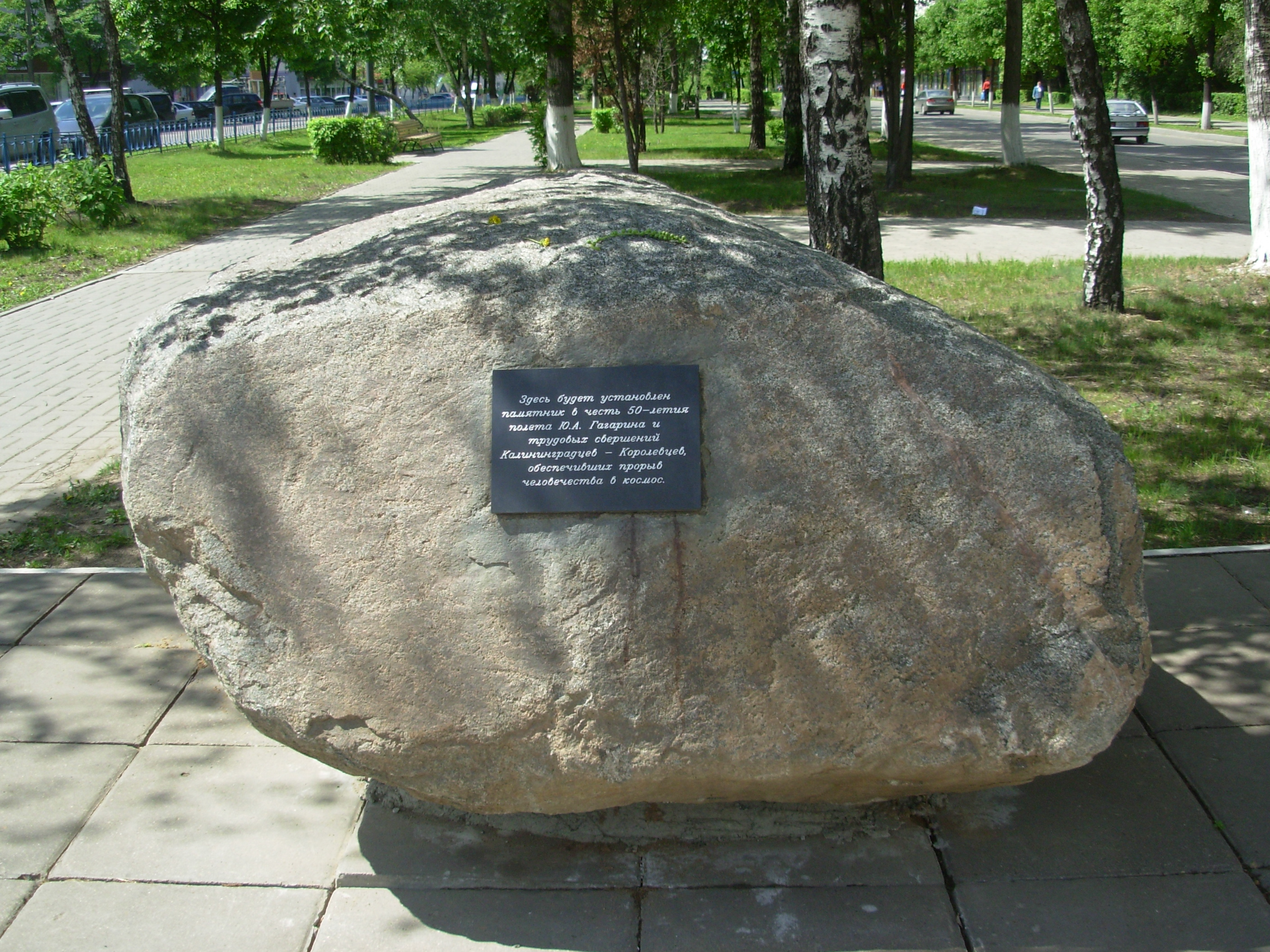 street